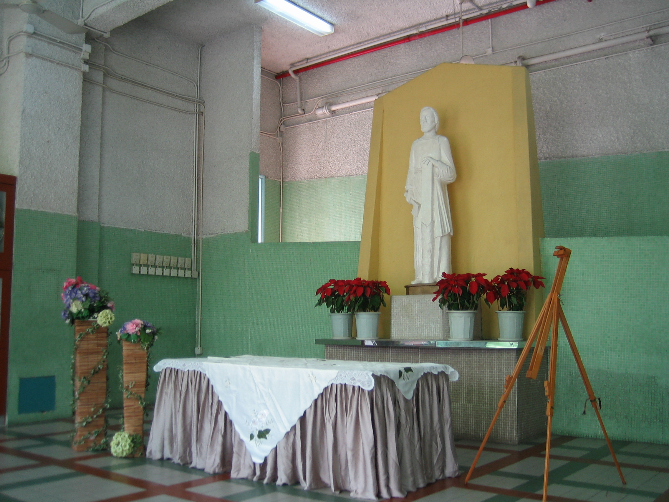 This is the Concourse of SJACPS campus, Hong Kong. If you have any questions about the licensing (like cc-by-sa, GFDL), or you want to republish the image without using the licensing shown as below, you are welcome to leave a message on the User Talk Page of my Chinese Wikipedia account. 中文（香港）: 這照片是香港九龍聖若瑟英文小學校舍聖堂大堂。 如你對這照片版權許可協議 (例cc-by-sa, GFDL) 有疑問，或你想把照片不用以下的版權協議轉載，歡迎你到我在中文維基百科的用戶對話頁留言。